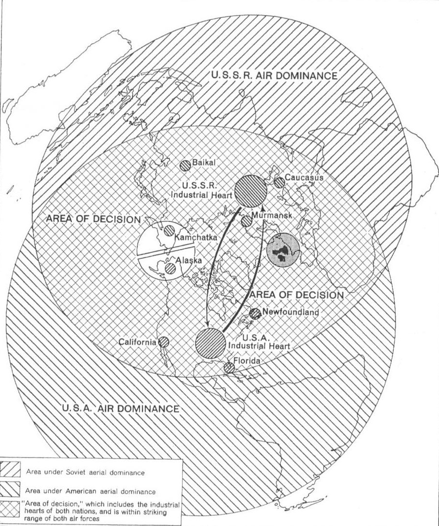 The power equation between American and Eurasian continents